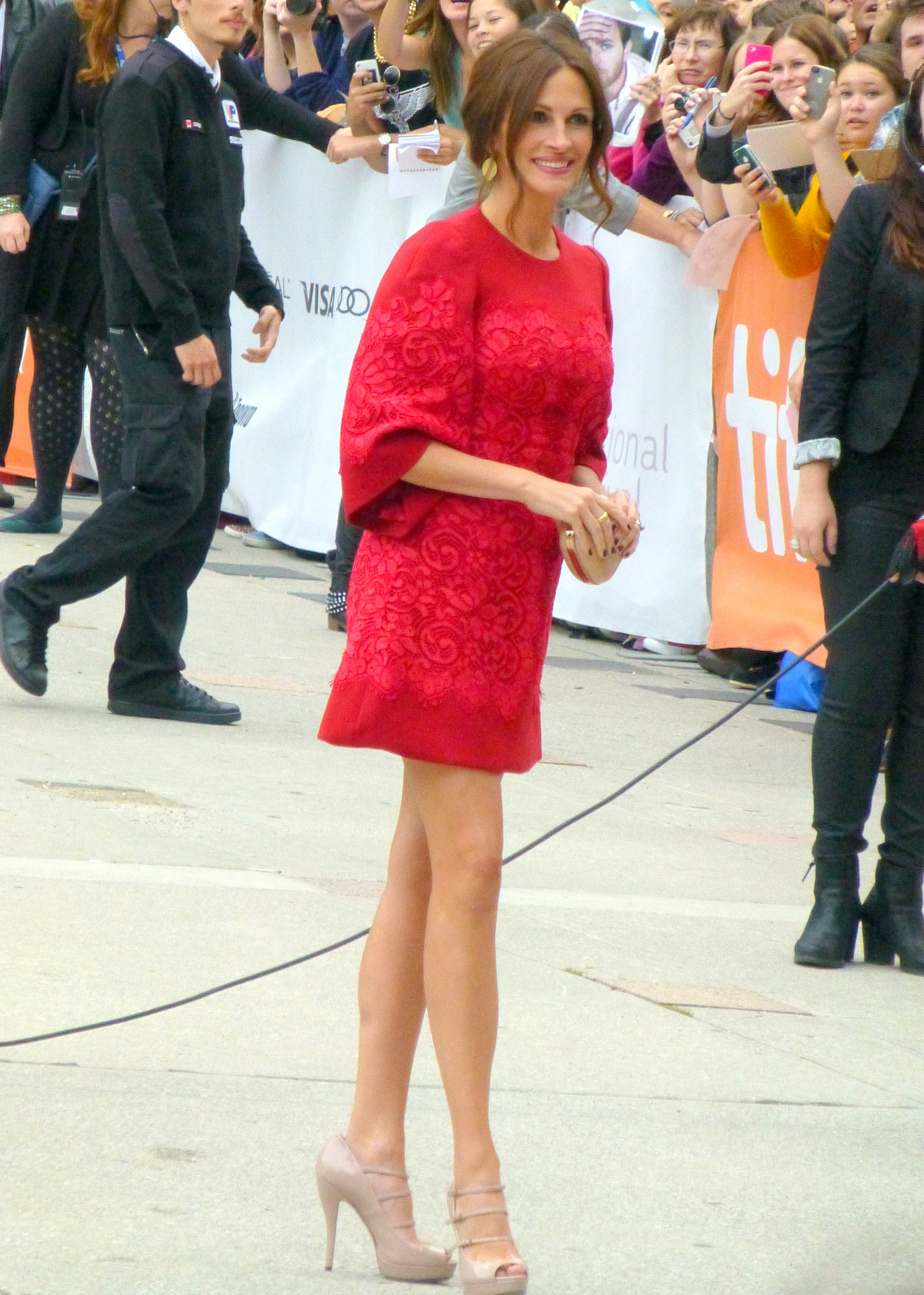 Julia Roberts at the premiere of August: Osage County, Toronto Film Festival 2013